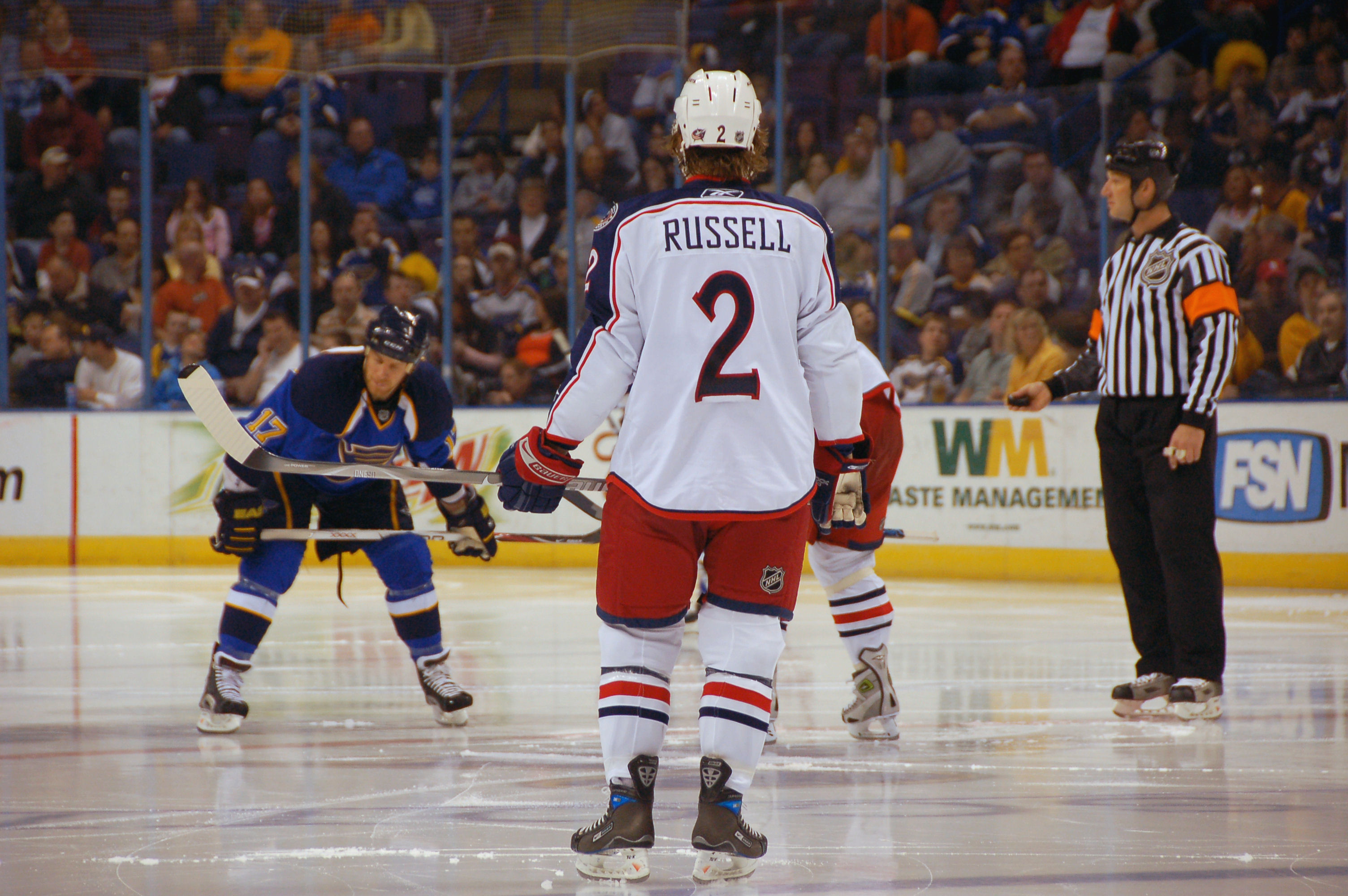 Kris Russell, ice hockey defender of the Columbus Blue Jackets